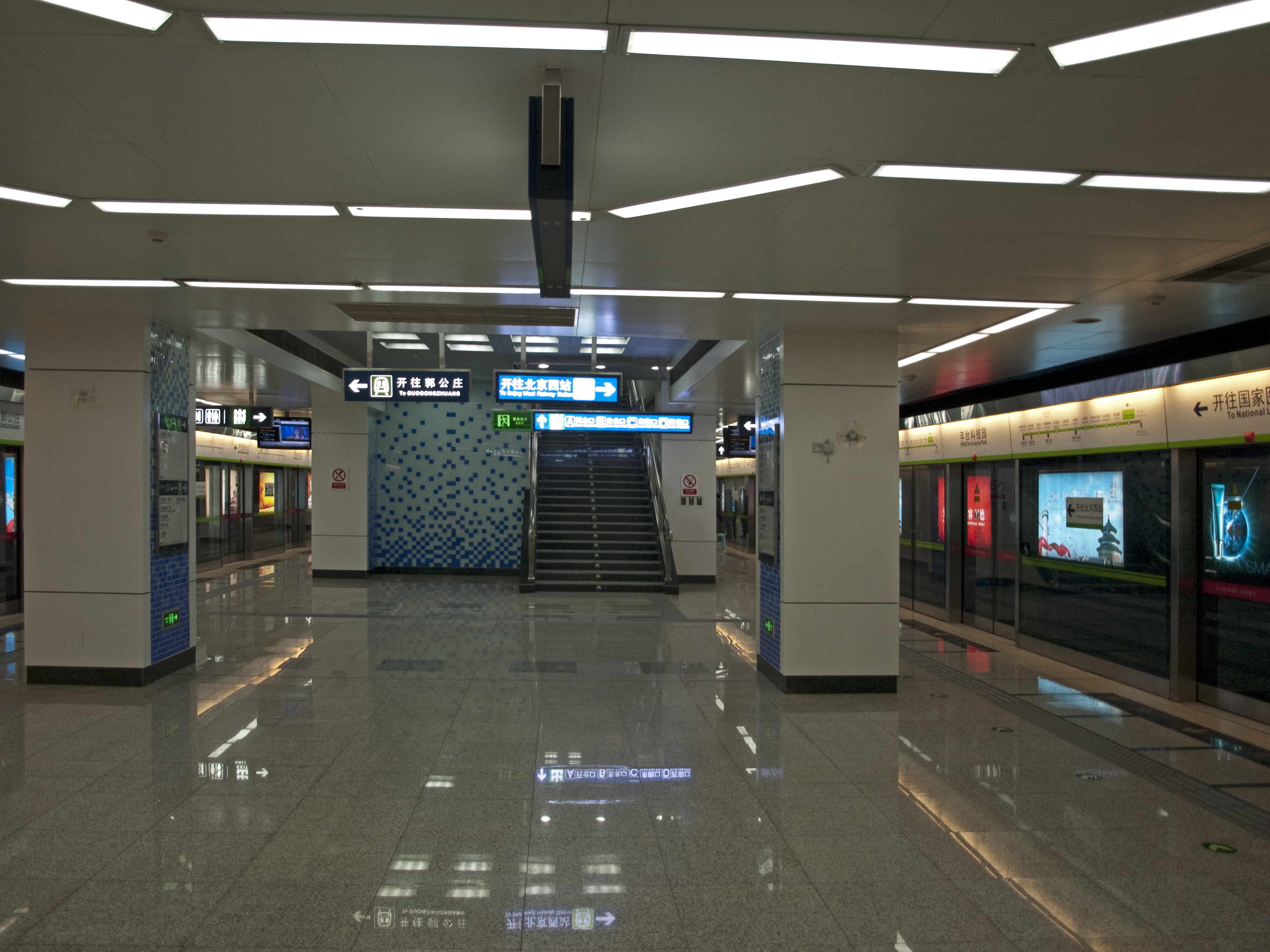 Fengtai Science Park station, Beijing Subway